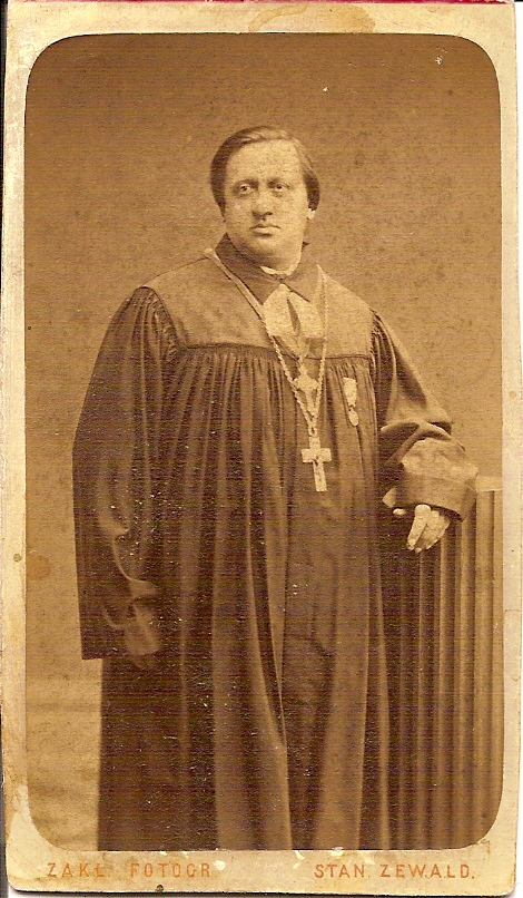 Lutheran priest Adam Haberkannt, served 1858-1863 in Lomza, them in exile in Russia 1863-1865, finally served in Kalisz.